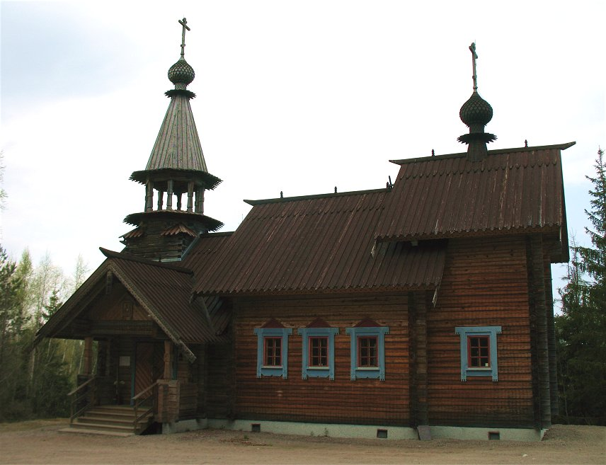 Orthodox church named after the Saint Nectarios of Aegina, located in Kuonomäentie 80, Klaukkala, Nurmijärvi, Finland. This church was built in 1993-1995 and became a church in 1997.